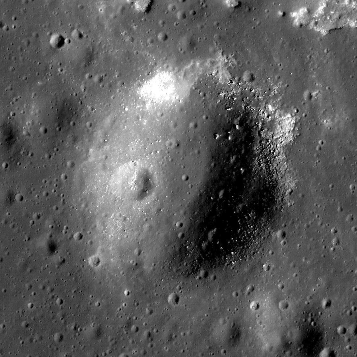 Small (400 m) crater Osama on the Moon, in Lacus Felicitatis, near crater Ina (a map). Centered at 18.605°N, 5.271°E (according to JMARS). Photo by Lunar Reconnaissance Orbiter, made with Narrow Angle Camera 27 November 2009 from altitude 45 km. Sun elevation is 32.3°. Width of the photo is 670 m, north is up.